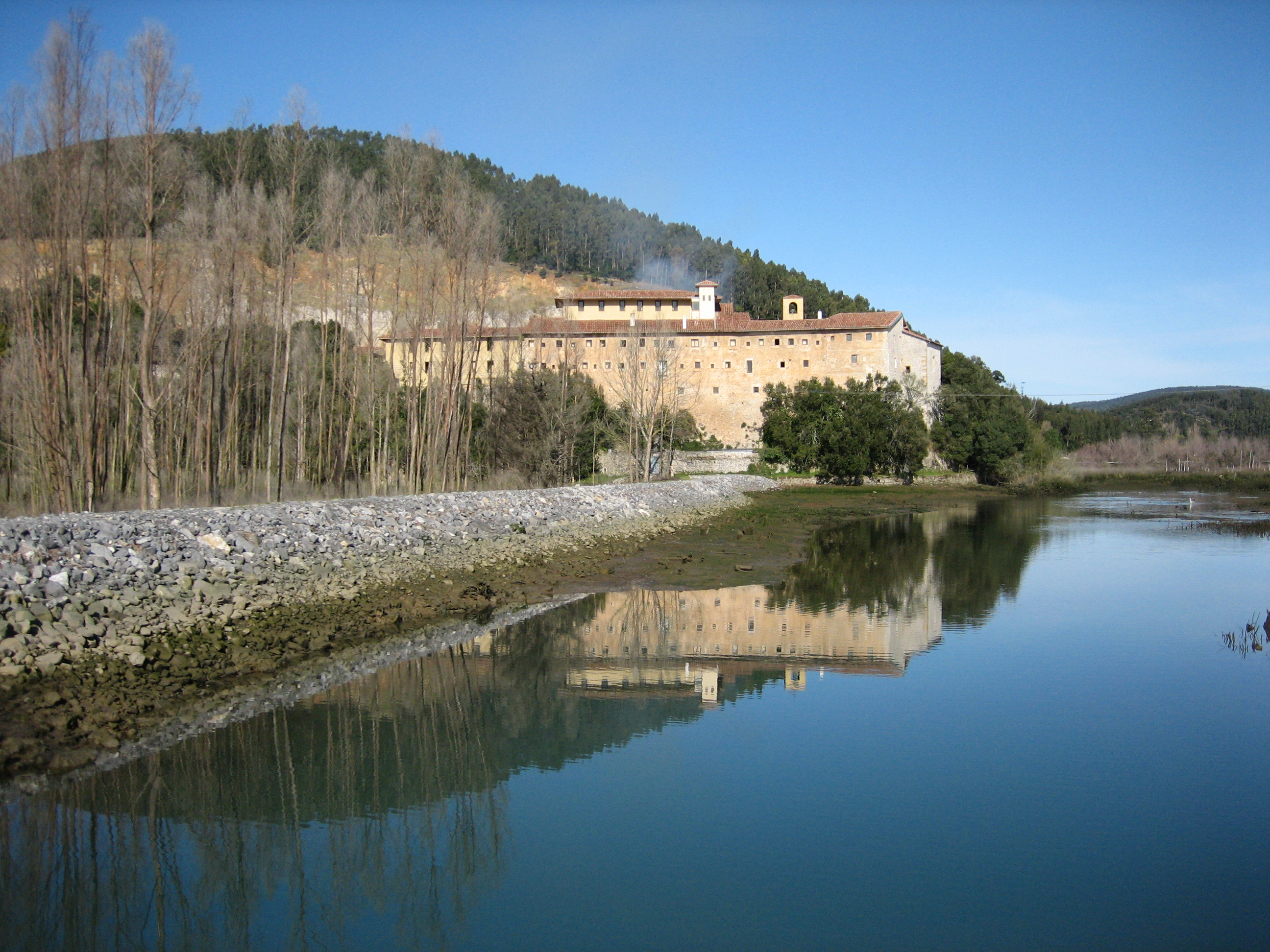 Monastery of Montehano in Escalante, Cantabria (Spain).